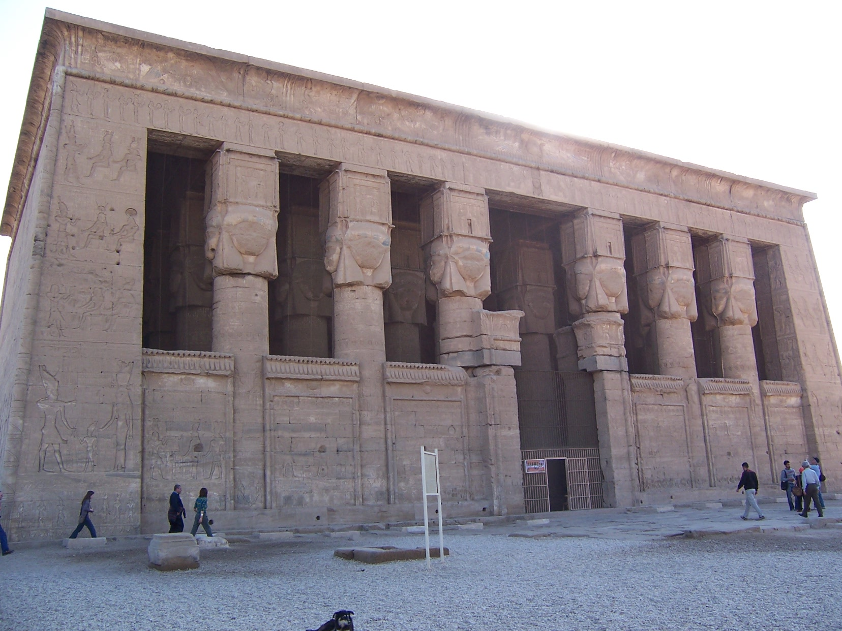 Dendera Hathor Temple Complex location: near Qina, Egypt